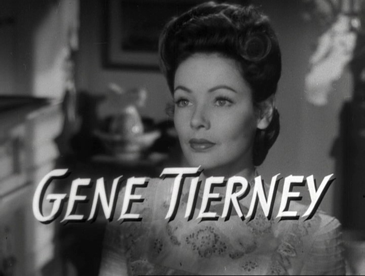 Cropped screenshot of Gene Tierney from the trailer for the film The Ghost and Mrs. Muir.